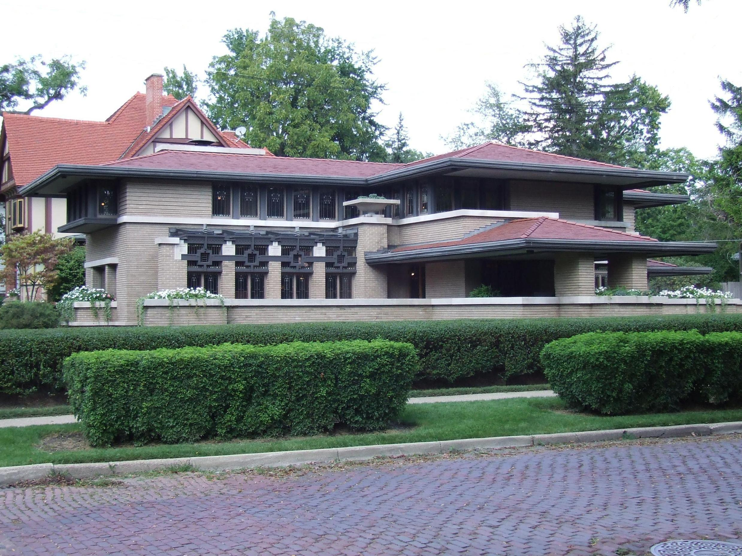 Meyer May House, Grand Rapids, MI